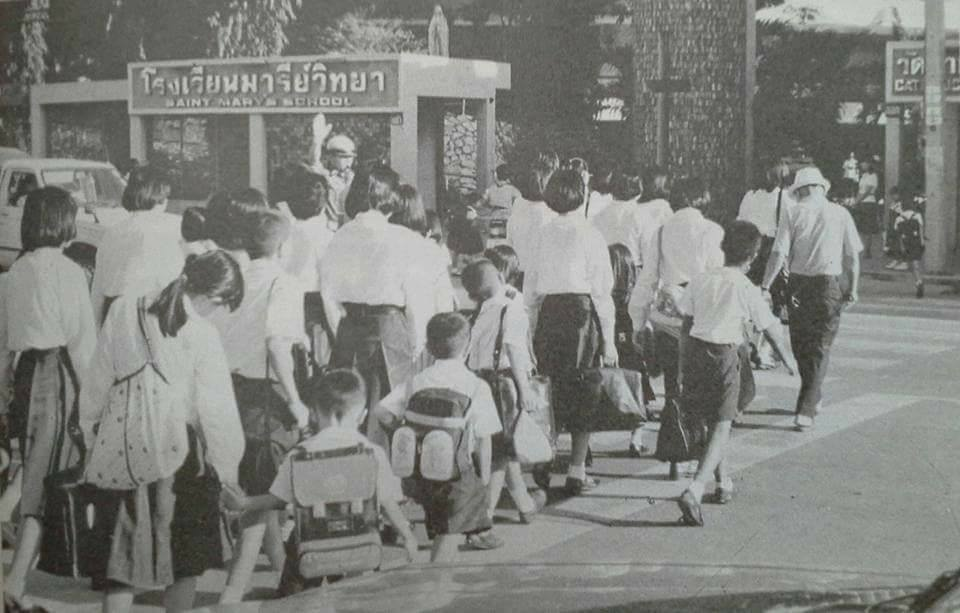 หน้าโรงเรียนสมัยยังไม่มีสะพานลอยคนข้าม